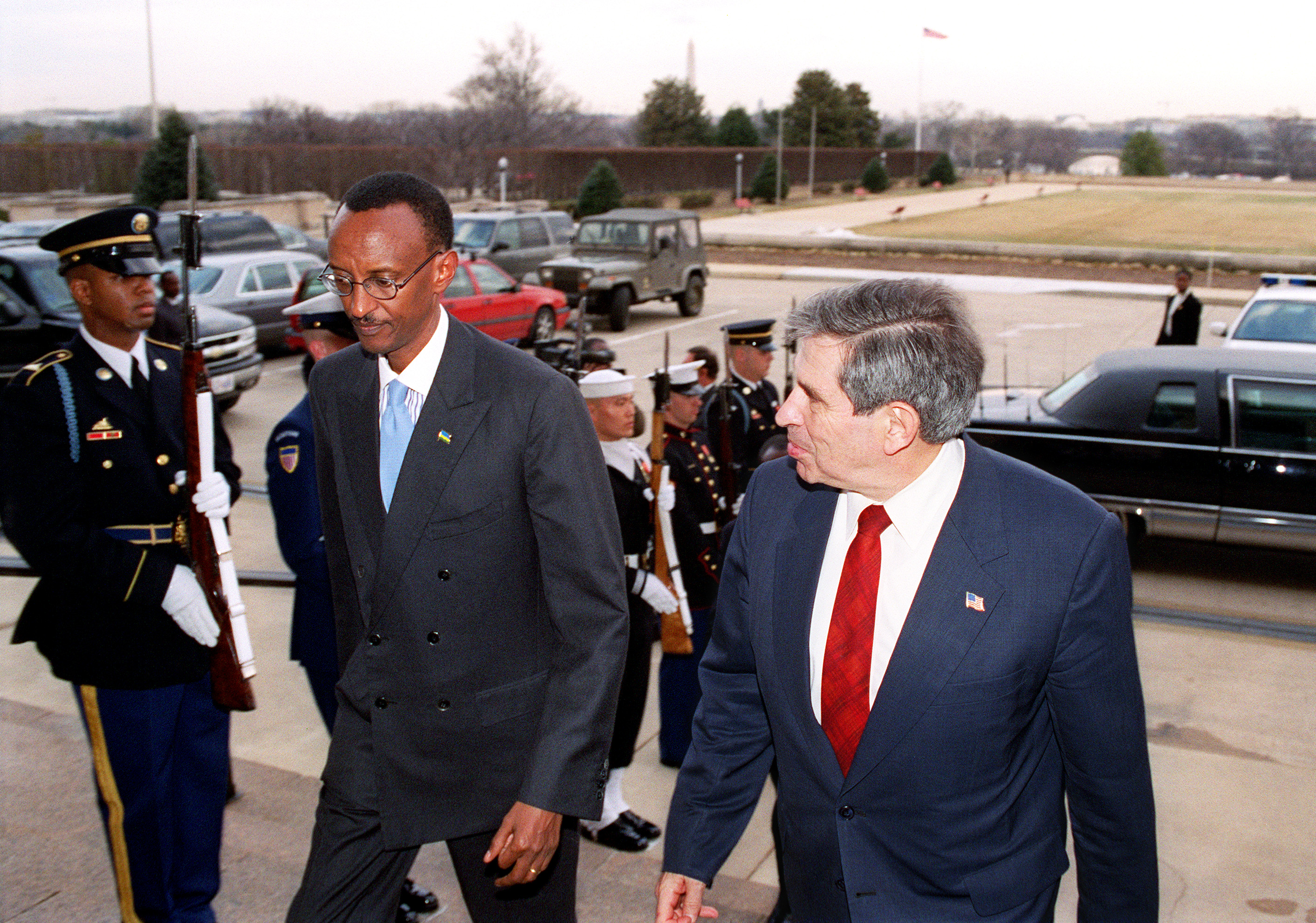 Deputy Secretary of Defense Paul Wolfowitz (right) escorts Rwandan President Paul Kagame into the Pentagon on March 5, 2003. The two men will meet to discuss a range of bilateral security issues.